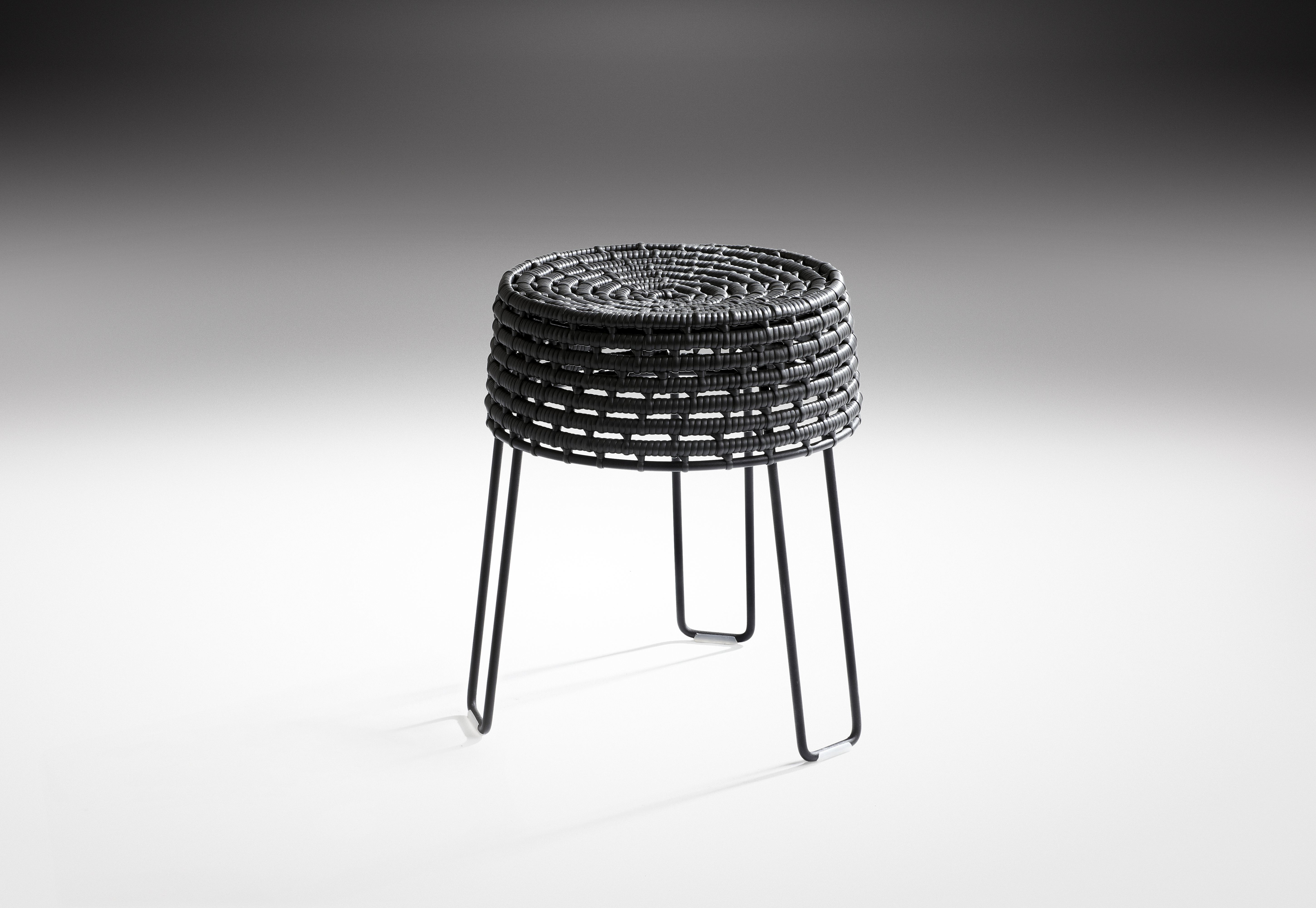 I have finally got around to creating a new product with the unique Southern African plastic weaving technique that I developed with local weavers for the iconic Zulu Mama Cafe Chair. These simple three legged stools in various heights (450mm, 620mm, 820mm) rare made from powder-coated 60% recycled rust proof stainless steel, and hand woven UV stable recycled polypropylene plastic.